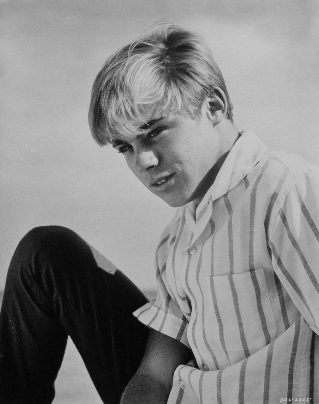 Publicity photo of teen actor Luke Halpin promoting the second season of the television series Flipper.